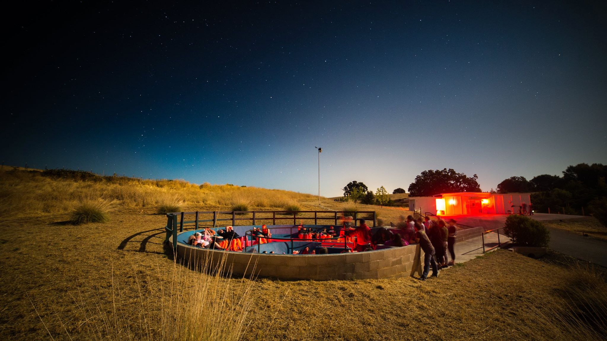 The Community Observatory on a dark night. A docent is providing a tour of constellations and describing some objects visitors had viewed through the telescopes.